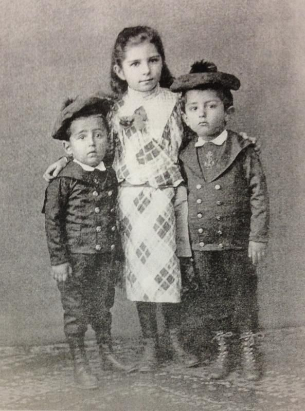 Jelena, Djorjde and Aleksandar, children of king Petar I